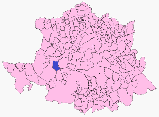 Navas del Madroño